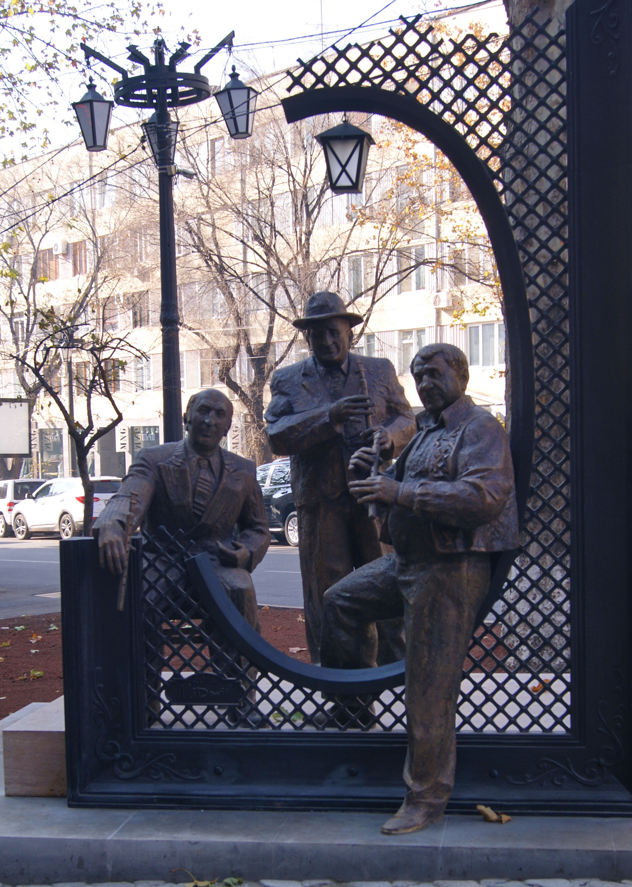 Group Sculpture "The Late Photograph", Sculpor David MInassian, architect Levon Igityan